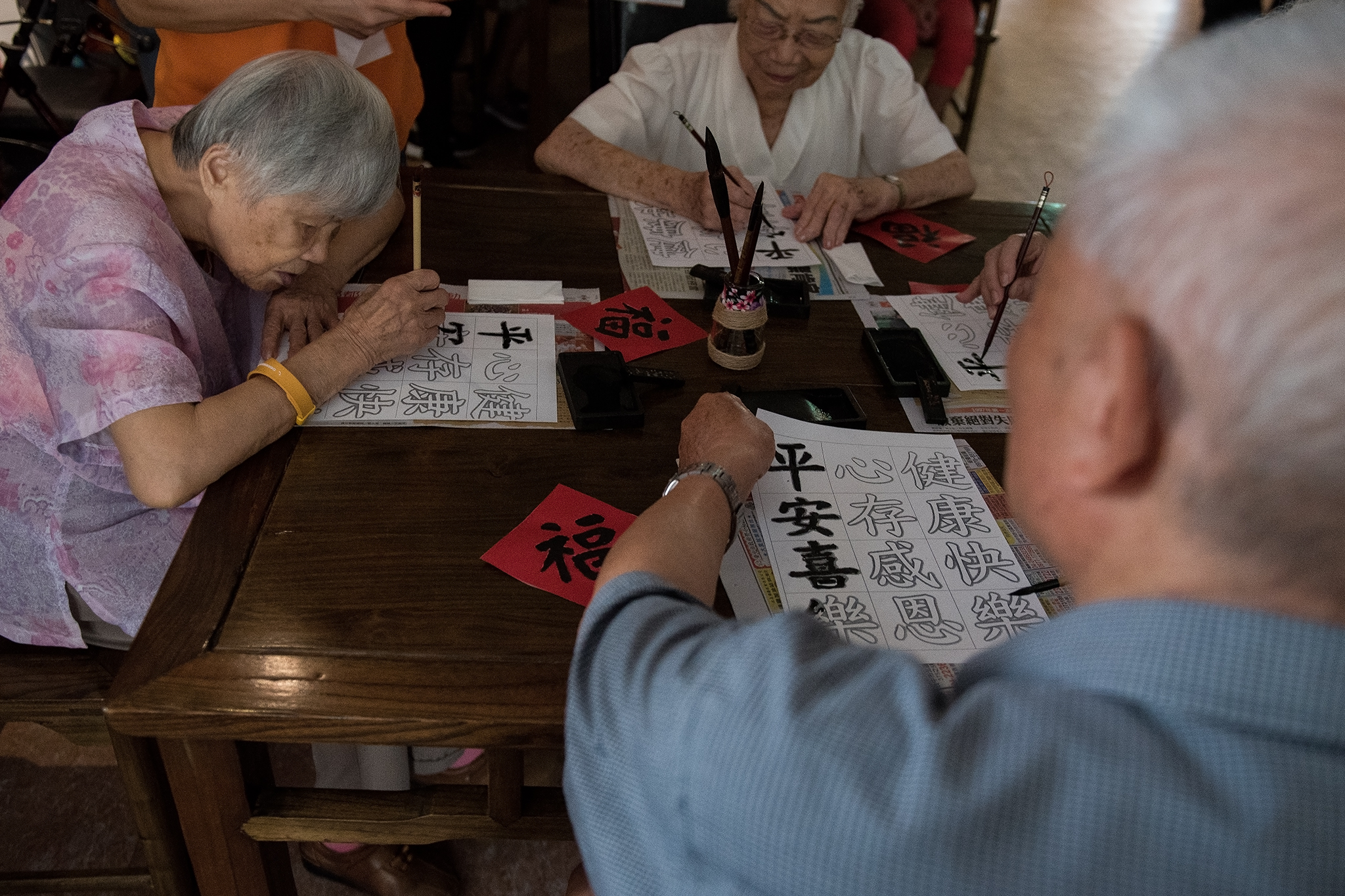 授權方式及範圍：中華民國總統府│政府網站資料開放宣告 Authorization Method & Scope: Office of the President, Republic of China (Taiwan) | Government Website Open Information Announcement